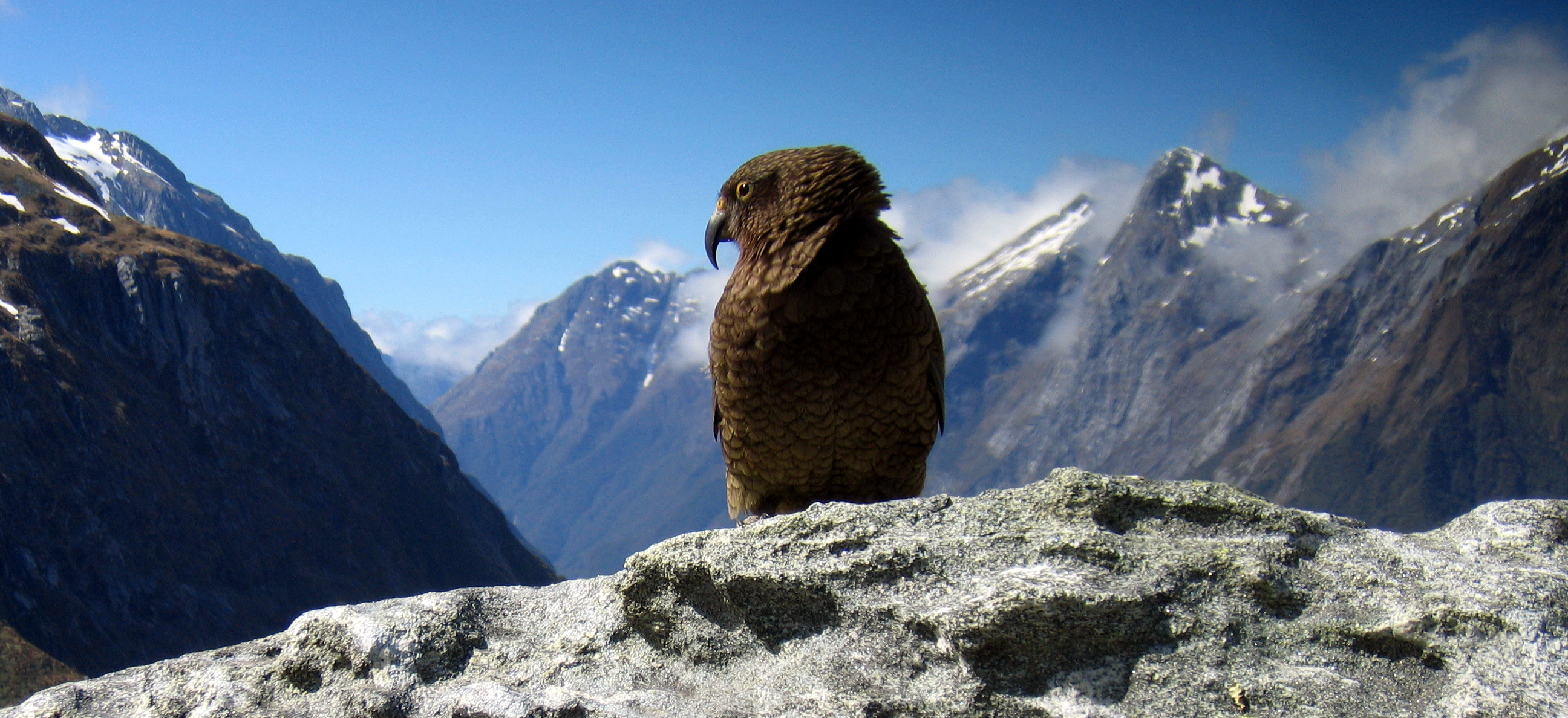 Subadult Kea (Nestor notabilis) on MacKinnon Pass (Milford Track) overlooking Fjordland in New Zealand.